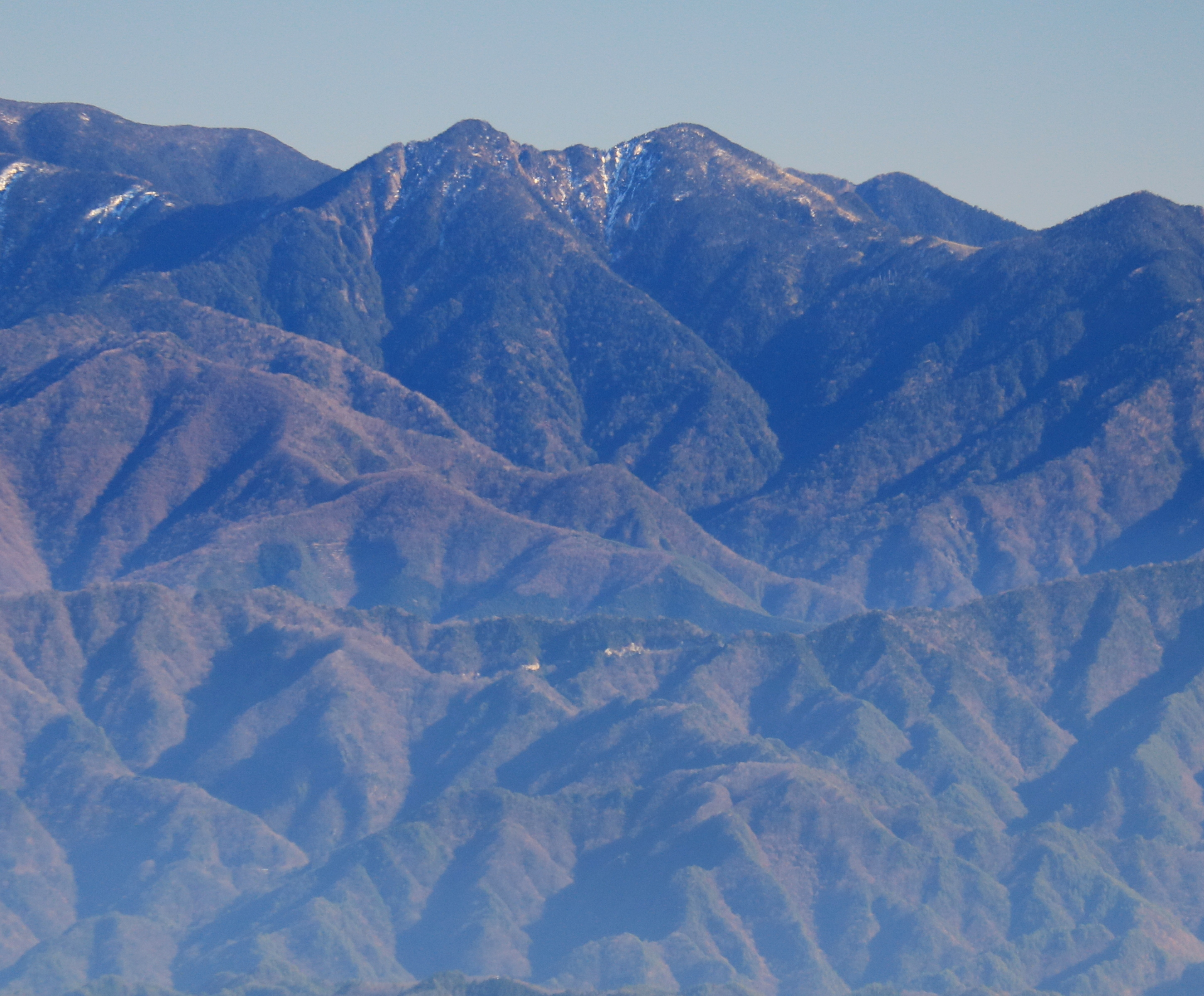 Mount Ikeguchi of Akaishi Mountains seen from Mount Ena in Japan.